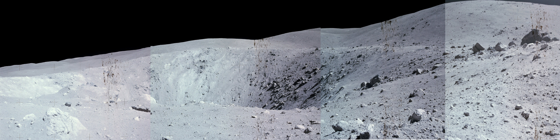 North Ray, Descartes Highlands, 4.4 km north of Apollo 16 landing site, and viewed from the south. This is Station 11 of EVA 3. House Rock is at right.